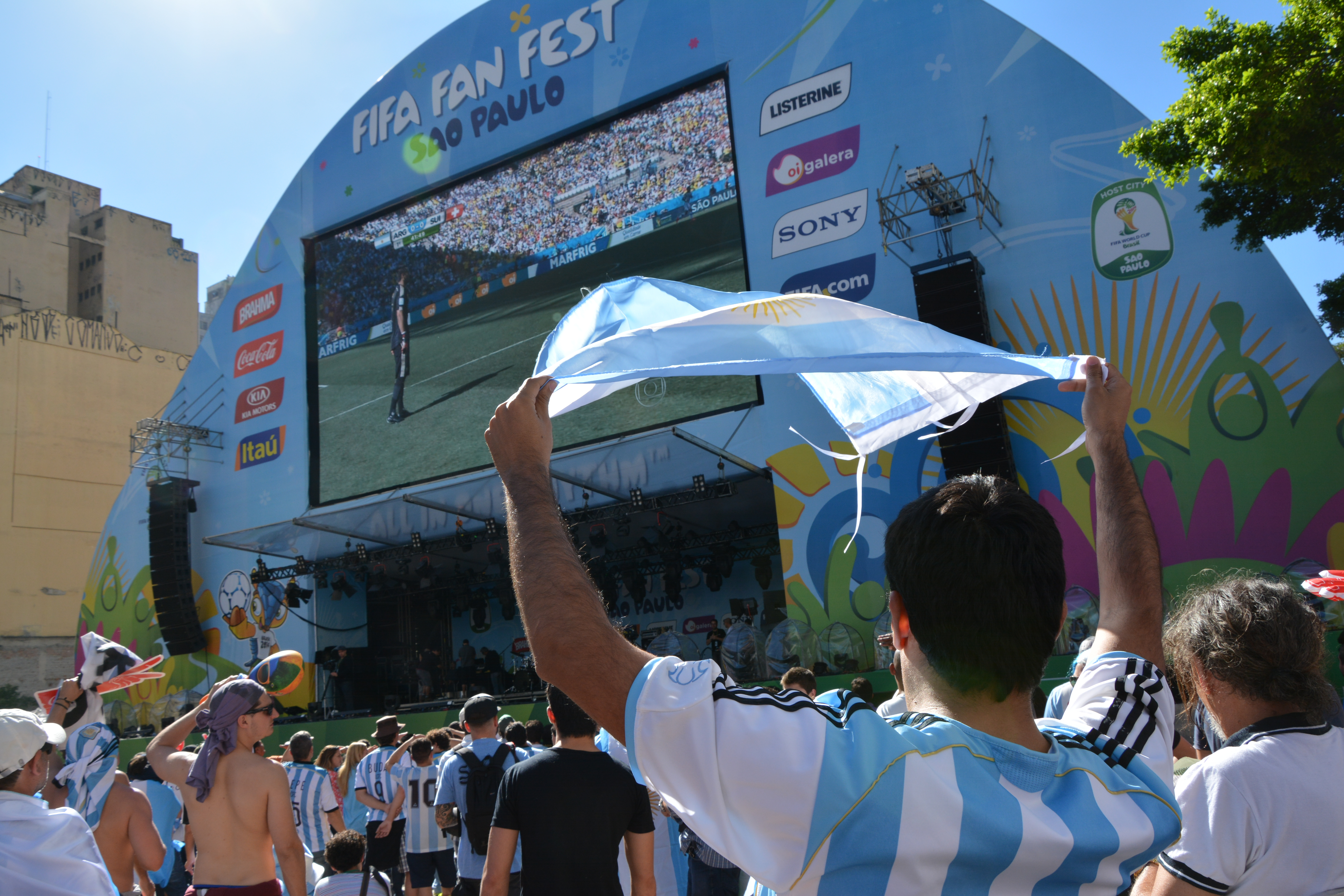 SAO PAULO - 1 July 2014 - Argentina fans at city center FIFA Fan Fest during Argentina-Switzerland Round of 16 World Cup game. Photo: Ben Tavener